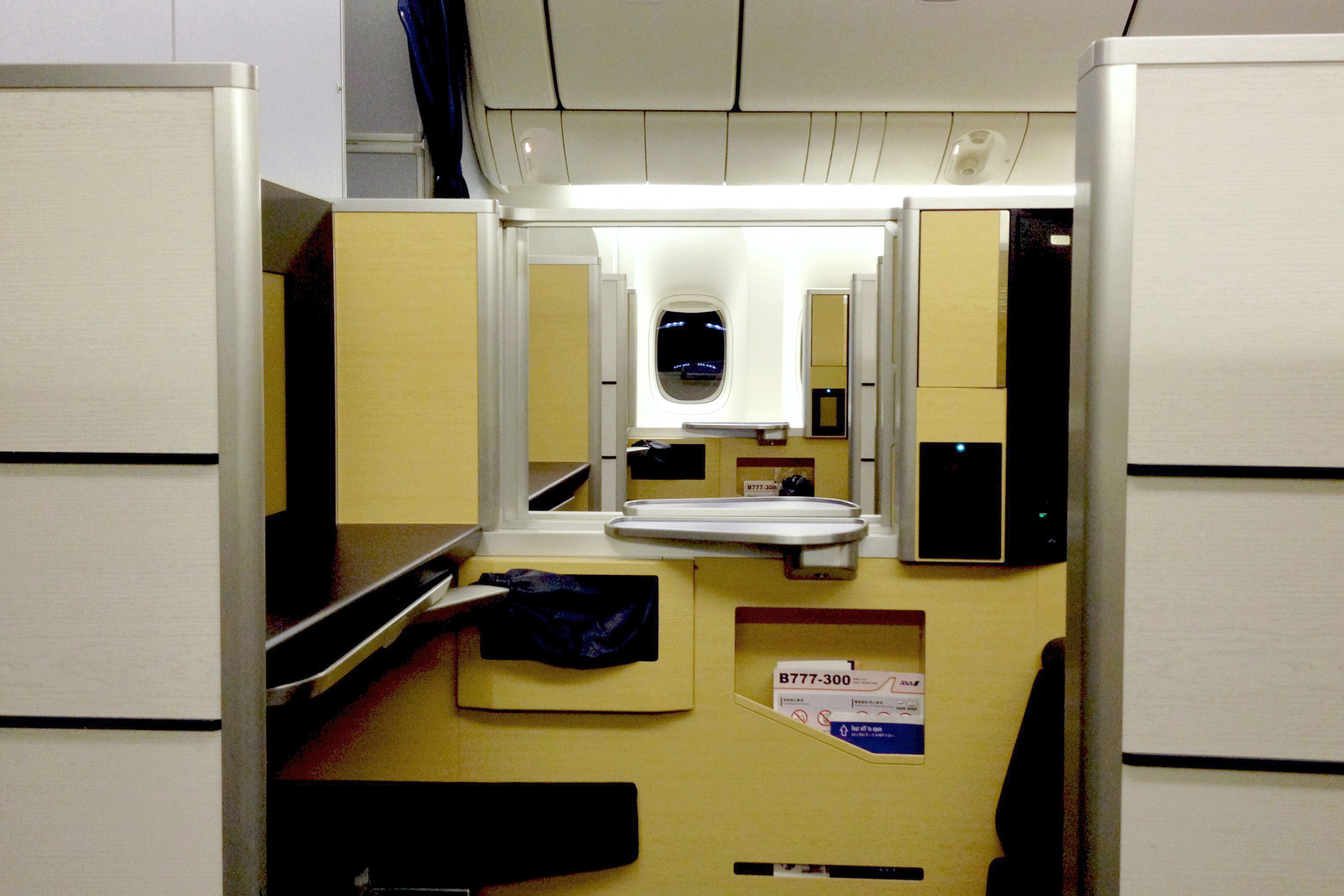 iPhone4s